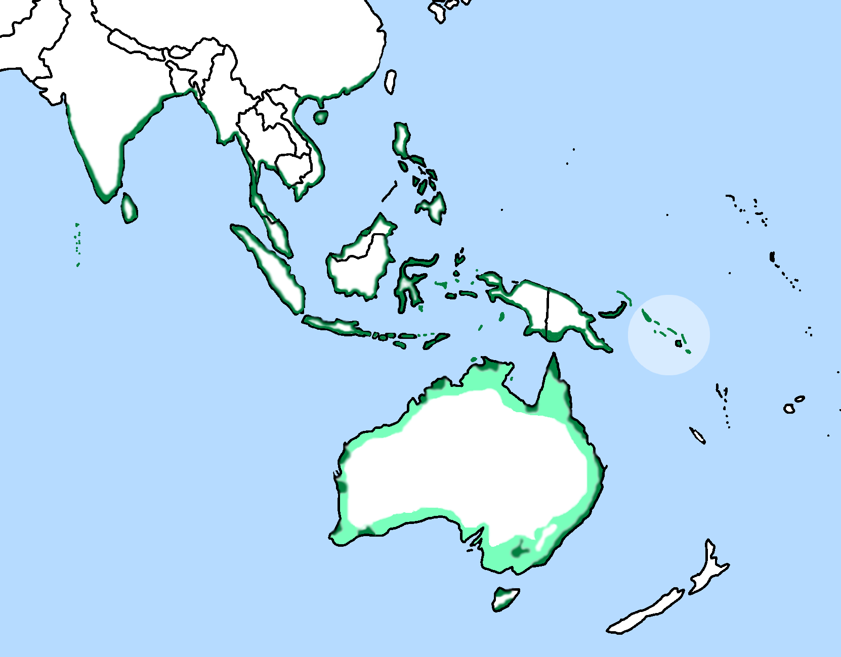 Distribution of White-bellied Sea Eagle and Sanford's Sea Eagle (in paler blue circle - covering the Solomon Islands Archipelago)